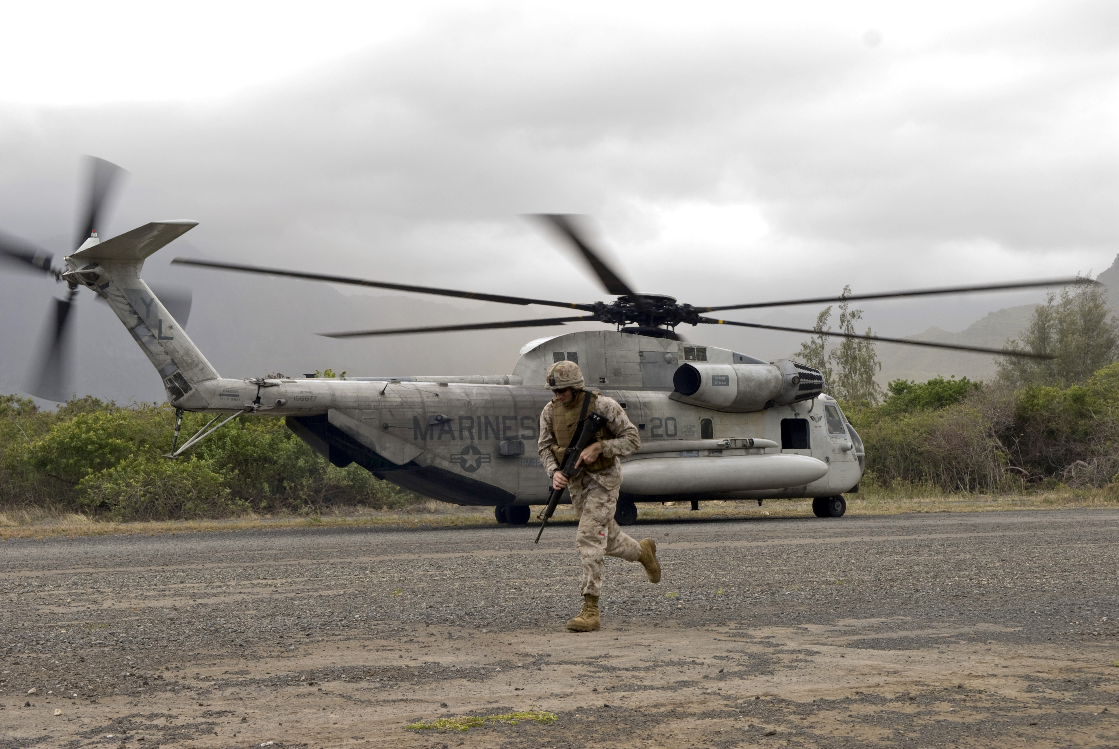 WAIMANALO, Hawaii (July 18, 2008) Marines assigned to Combat Logistics Battalion 3 land at Bellows Air Force Station, Hawaii, in Marine CH-53 Sea Stallion helicopters during a simulated raid while participating in Rim of the Pacific (RIMPAC) 2008. The helicopter flew from the amphibious assault ship USS BonHomme Richard (LHD 6). RIMPAC is the world's largest biennial multinational exercise conducted by the U.S. Pacific Fleet. Participants include the U.S., Australia, Canada, Chile, Japan, Netherlands, Peru, Republic of Korea, Singapore and the United Kingdom. U.S. Navy photo by Mass Communication Specialist 1st Class Mark Rankin (Released)